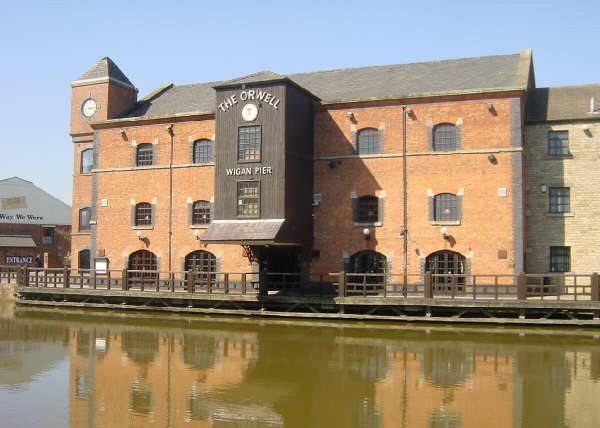 Wigan Pier. "The Orwell" at Wigan Pier, formerly Gibson's warehouse, originally built in 1777, re-built in 1984.